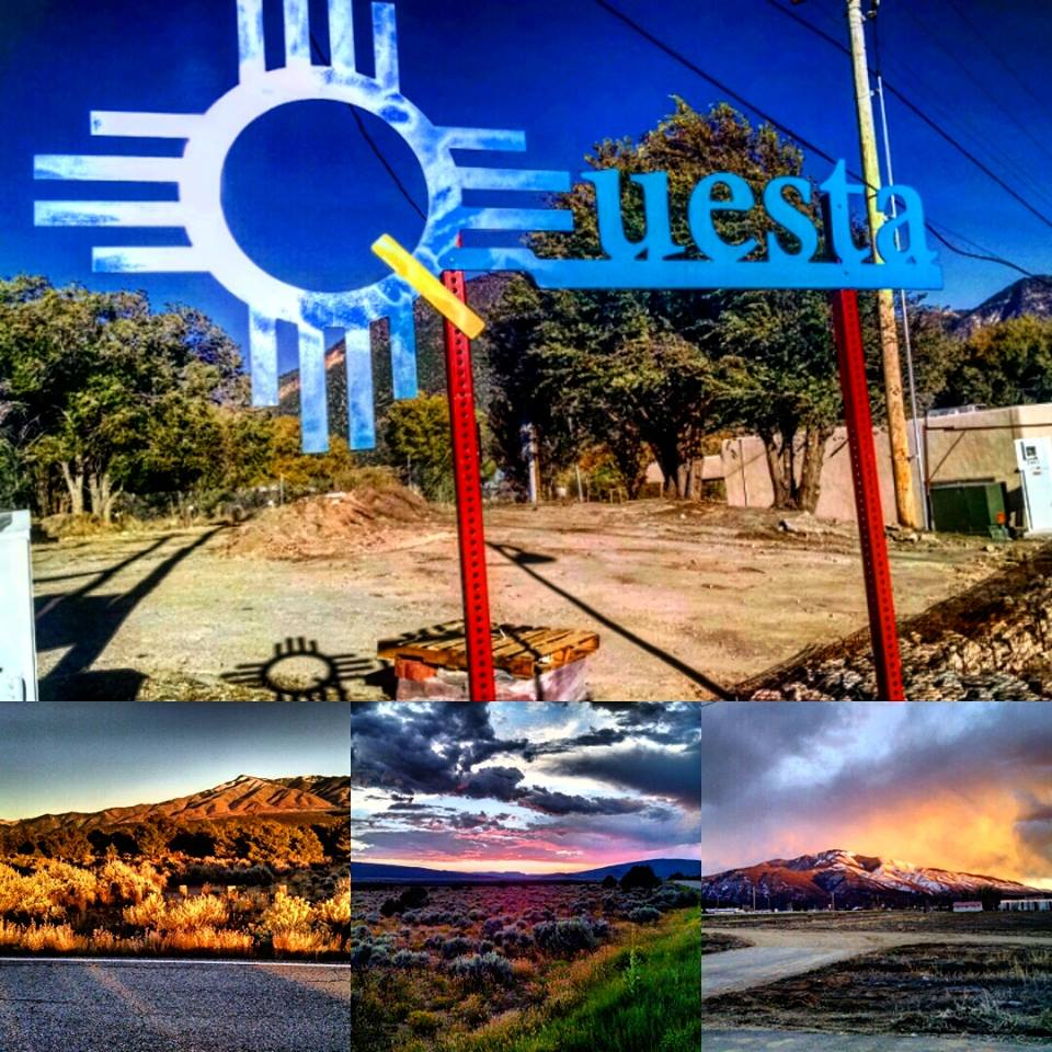 Questa scenery